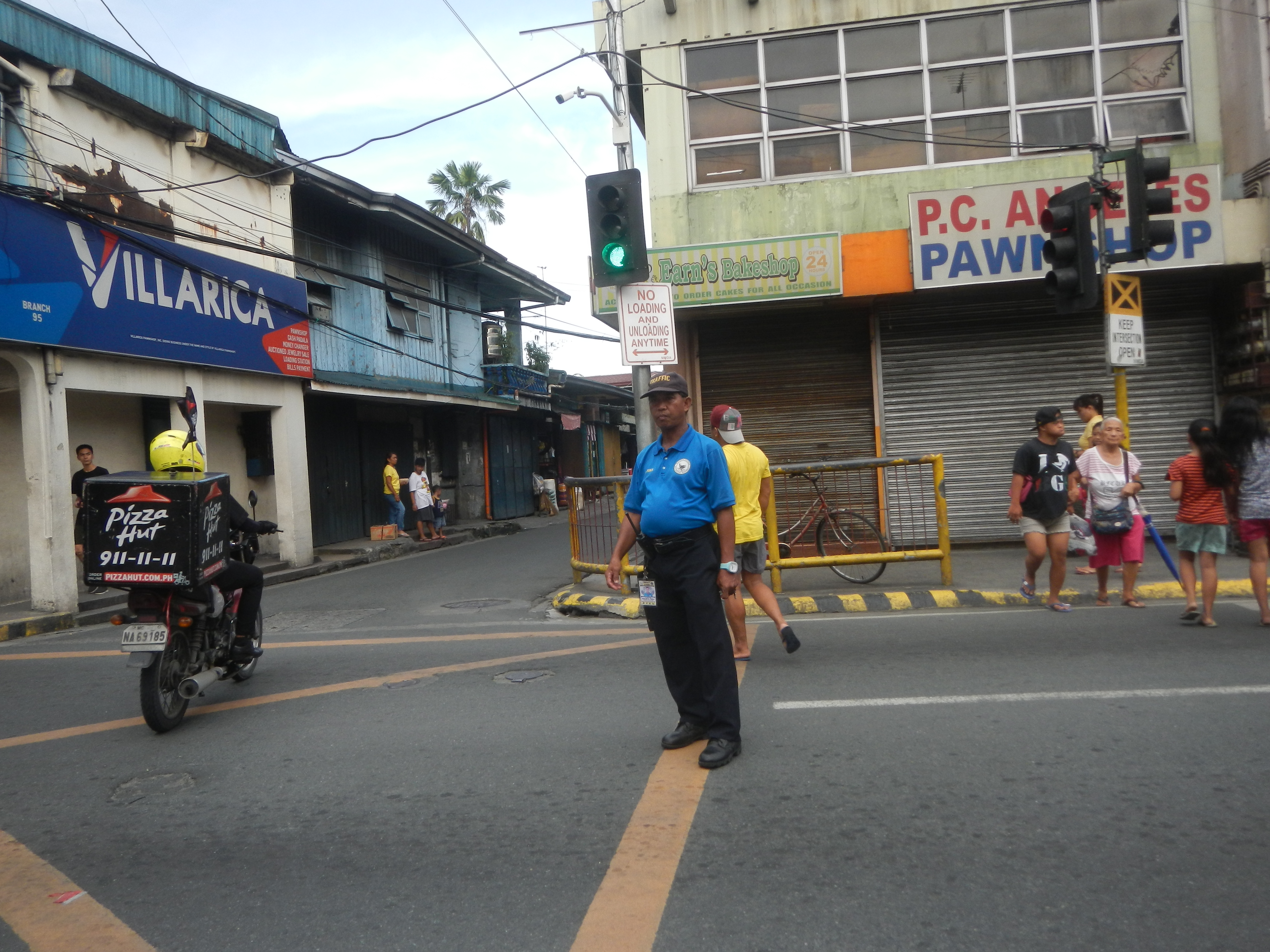 Estuaries in Makati City, Pasig City and Pateros, Metro Manila List of rivers and estuaries in Metro Manila Pateros Bridge and Creek - Makati Welcome Arch in Comembo and Aguho, Pateros, Rizal List of barangays of Metro Manila, Legislative district of Pateros–Taguig Barangay Aguho 14°32'35"N 121°3'50"E Poblacion Poblacion 14°32'40"N 121°4'0"E Santa Ana 14°32'40"N 121°4'22"E Pateros, Metro Manila Metro Manila Pateros Bridge 14°32'45"N 121°3'54"E B. Morcilla Street 14°32'41"N 121°4'1"E (Note: Judge Florentino Floro, the owner, to repeat, Donor Florentino Floro of all these photos Judge Floro hereby donate gratuitously, freely and unconditionally all these photos to and for Wikimedia Commons, exclusively, for public use of the public domain, and again without any condition whatsoever).